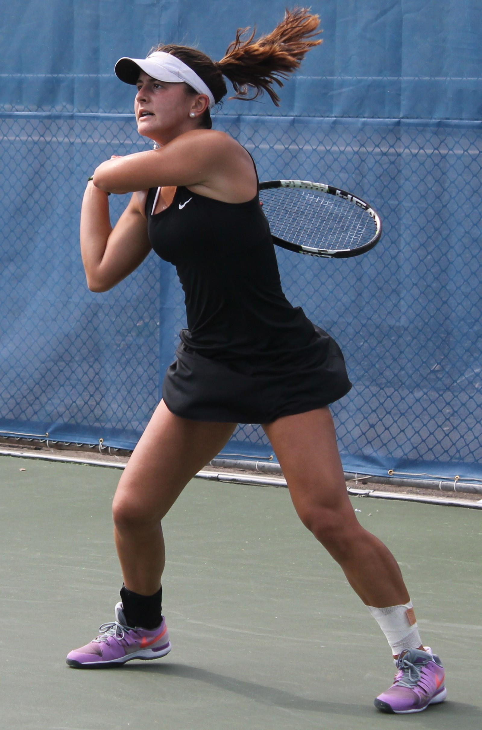 Bianca Andreescu follows through on a backhand during the 2015 U18 Outdoor Rogers Junior Nationals final.